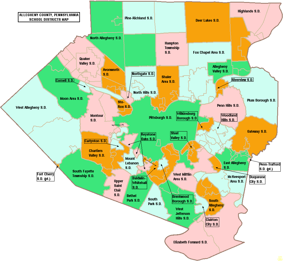 Map of Allegheny County, Pennsylvania, United States Public School Districts